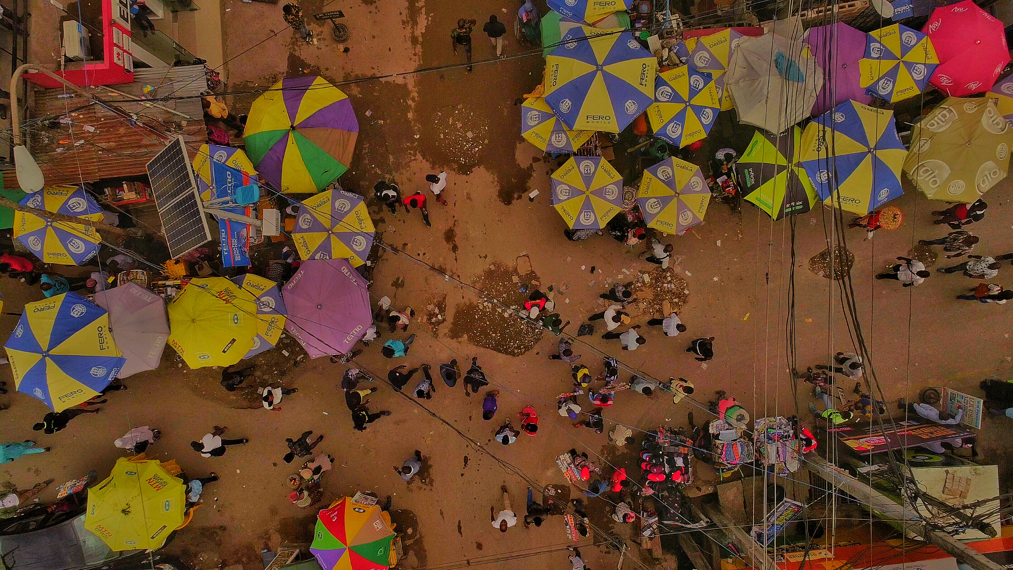 Computer Village, Ikeja, Lagos, Nigeria. This is an image of "African people at work" from Nigeria